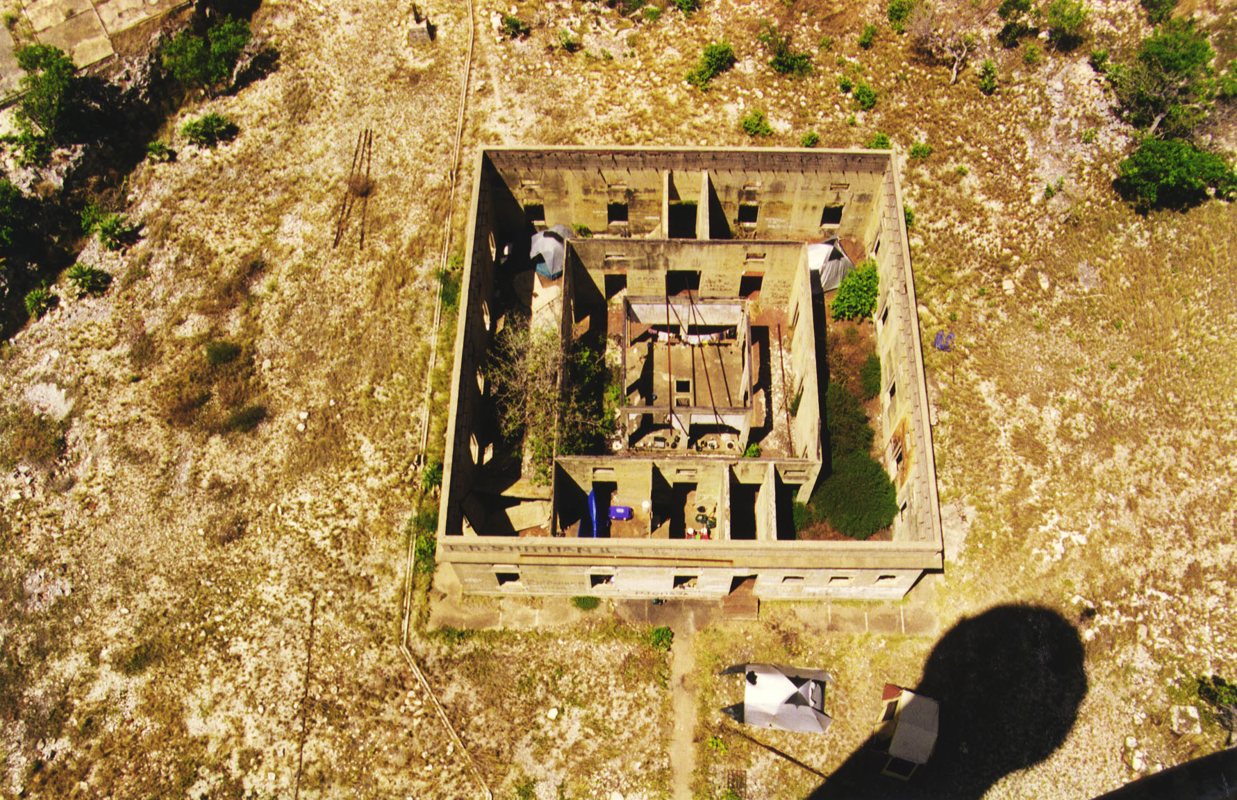 The ruins of the lighthouse keepers residence on Navassa Island